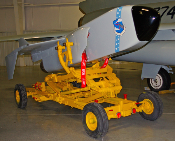 McDonnell ADM-20C-40-MC "Quail" Aerial Decoy S/N 61-633